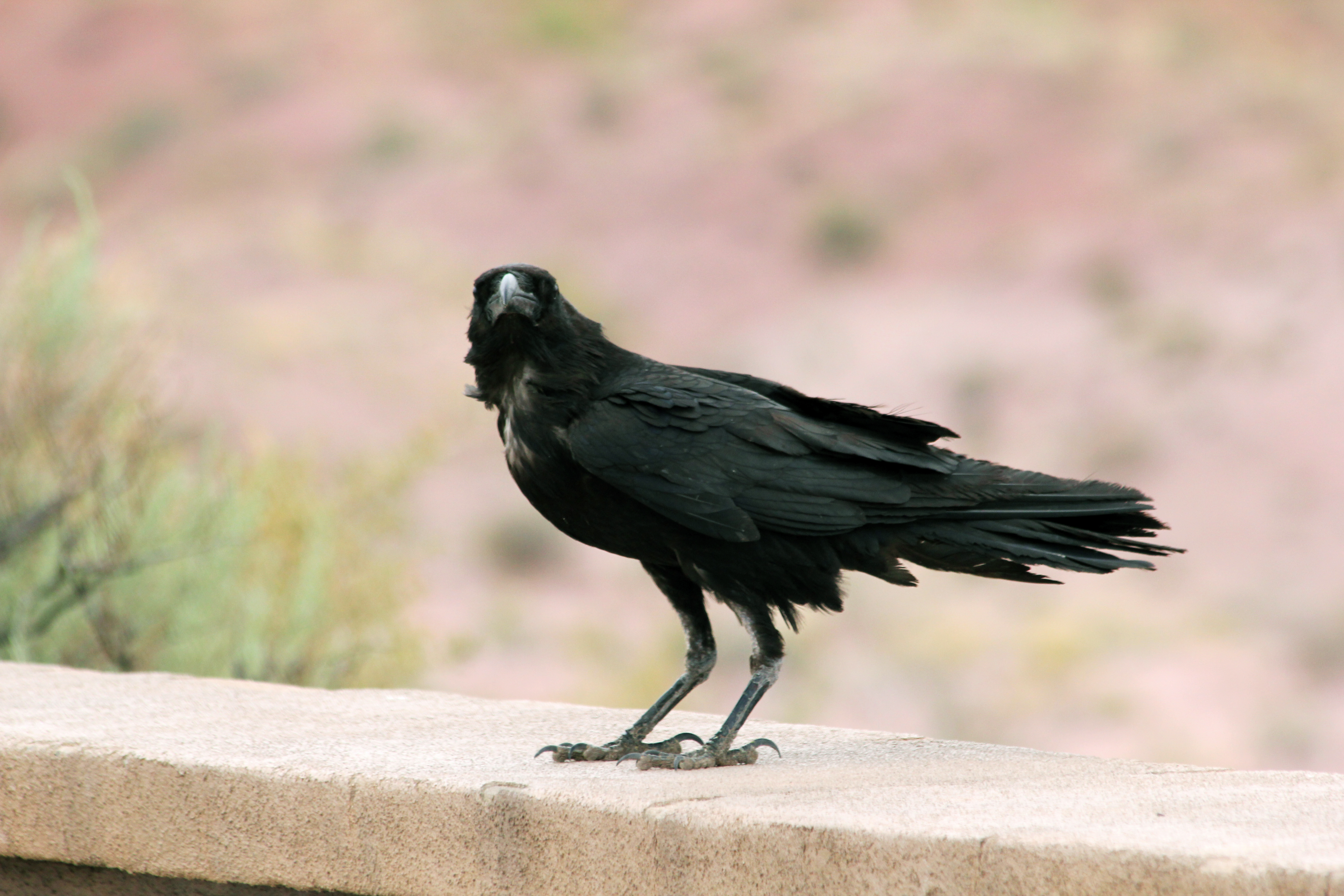 Chihuahuan Raven in Arizona, USA.